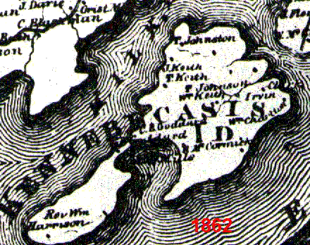 A map of Kennebecasis Island in 1862. Many of the family names on the map are still common today on the island.